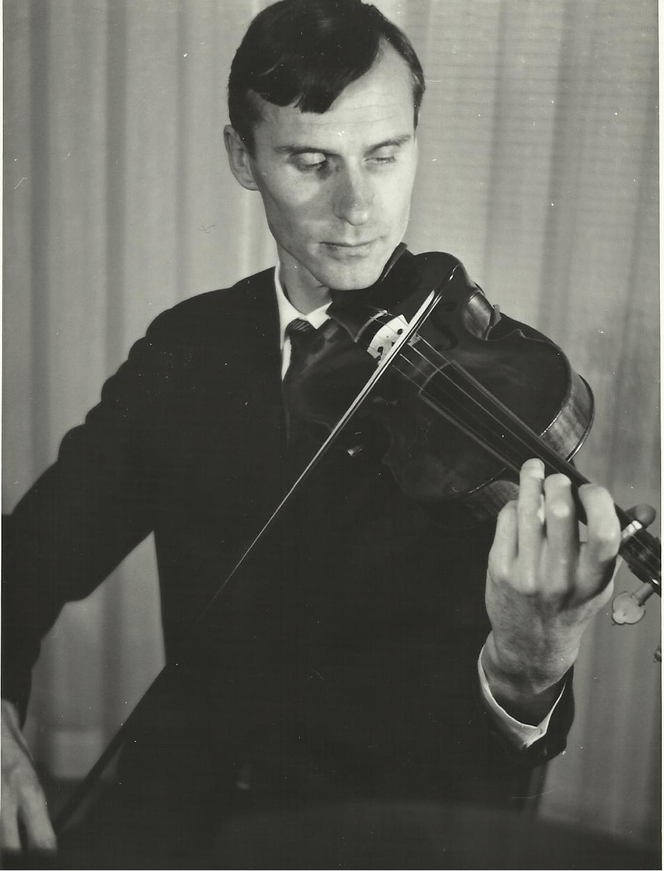 Lars Frydén Lld: Lars Frydén